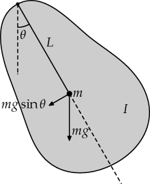 Physical pendulum (labeled diagram).